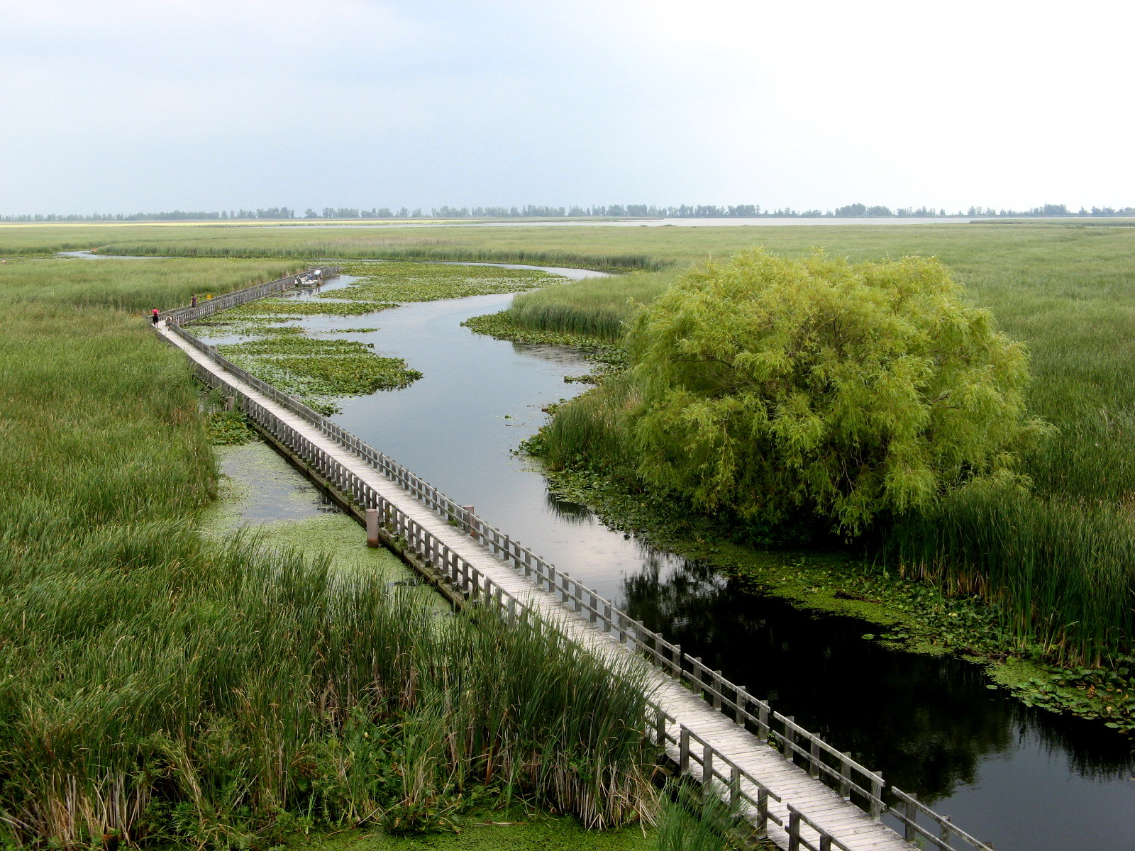 Point Pelee is just about the most southerly part of Canada. Many migrating birds travel through the point as they cross Lake Erie. Original caption: Black clouds on the horizon...a storm is coming maybe.